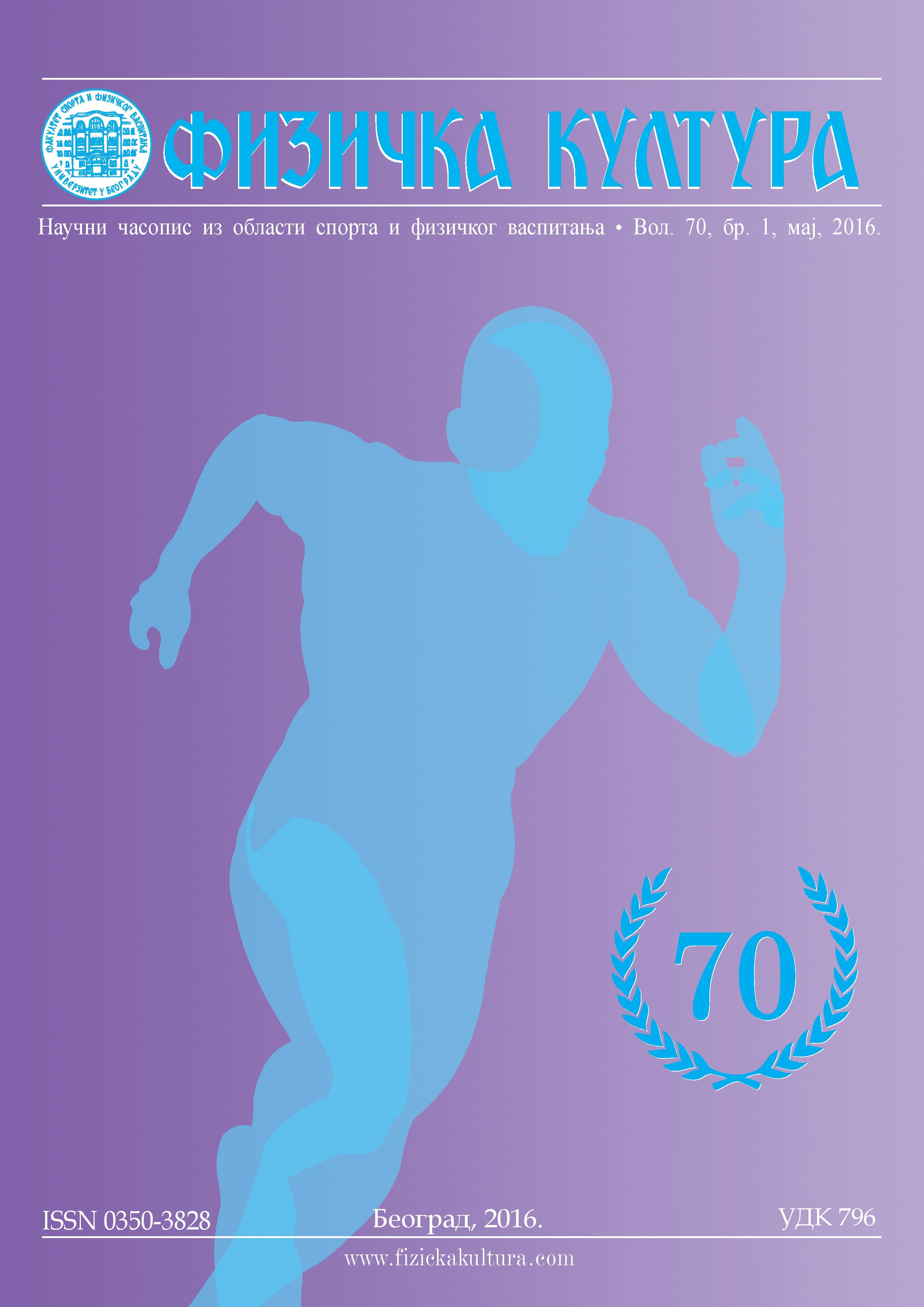 Physical culture, scientific journal from Serbia - cover, 2016, serbian